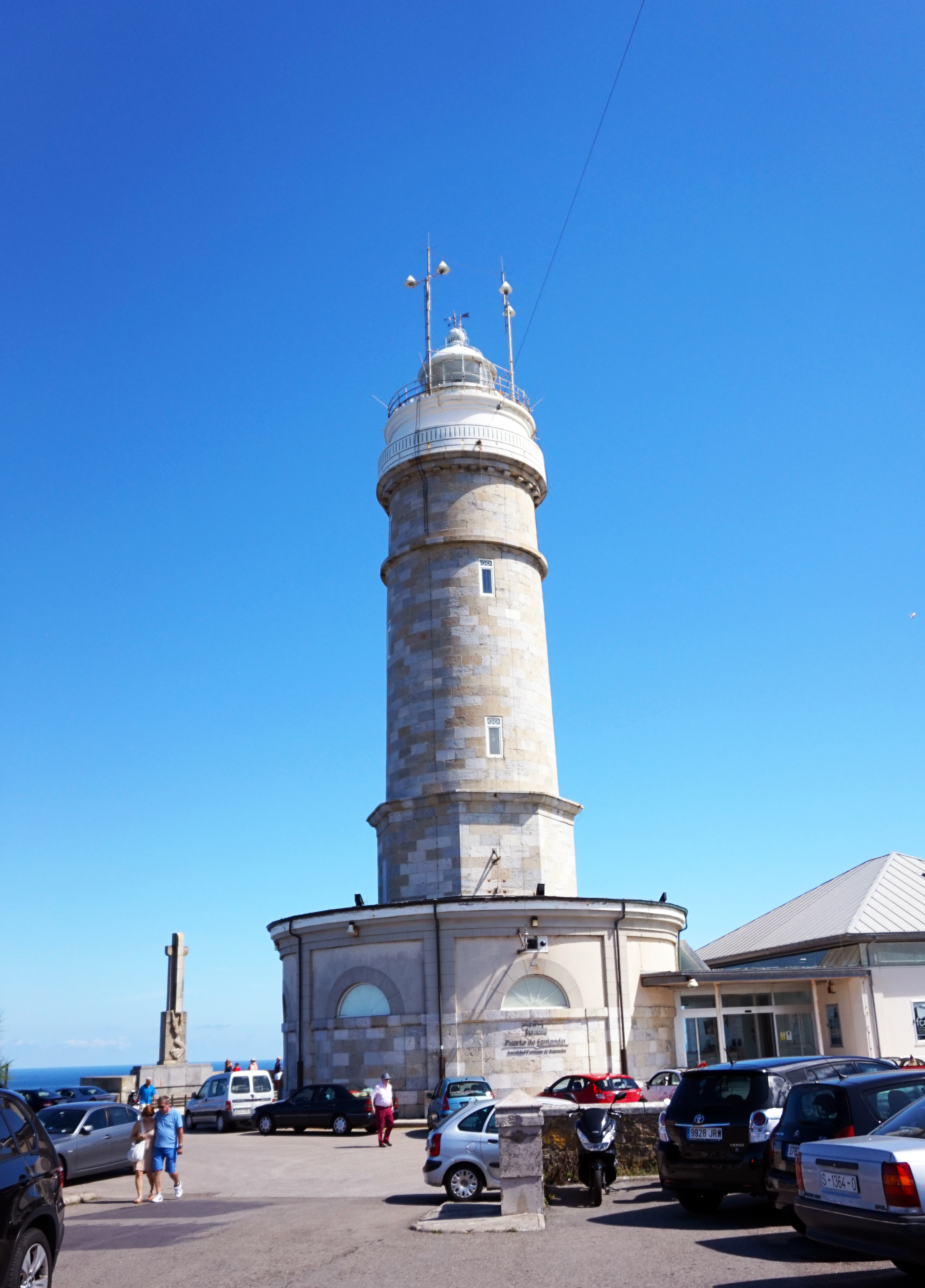 Faro de Cabo Mayor in Santander.This photograph was taken with a Sony ILCE-5000